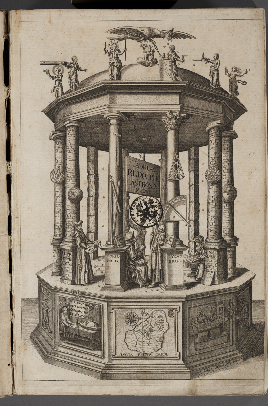 Frontispiece of : "Tabulae Rudolphinae : quibus astronomicae ...." by Johannes Kepler